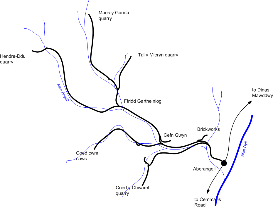 Map of the Hendre-Ddu Tramway Author: Gwernol